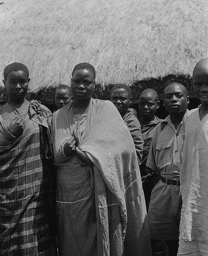 TITLE: Uganda. From Hoima to Fort Portal. Two young women of a leading family CALL NUMBER: LC-M31- 8343[P&P] REPRODUCTION NUMBER: LC-DIG-matpc-00344 (digital file from original photo) RIGHTS INFORMATION: No known restrictions on publication. MEDIUM: 1 negative : glass, dry plate ; 4 x 5 in. or smaller. CREATED/PUBLISHED: [1936] CREATOR: Matson Photo Service, photographer. NOTES: Title from: Catalogue of photographs & lantern slides ... [1936?]. Caption continues from catalog: Finlay color negative. From catalog: East Africa copyright photos by G. Eric Matson, American Colony Photo Dept. Monotone, Finlay colour, and Infra red photos, taken on a flight with Imperial Airways on a World Trunk route following the Nile from the Delta to the Victoria Nile and the Victoria Lake. Caption on negative: Natives in Fort Portal. Town Types. Gift; Episcopal Home; 1978. SUBJECTS: Uganda. FORMAT: Dry plate negatives. PART OF: G. Eric and Edith Matson Photograph Collection REPOSITORY: Library of Congress Prints and Photographs Division Washington, D.C. 20540 USA DIGITAL ID: (digital file from original photo) matpc 00344 CONTROL #: mpc2004000209/PP